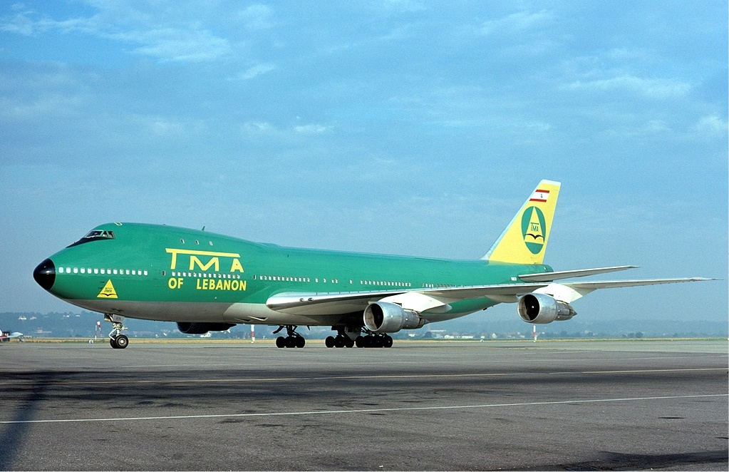 Trans Mediterranean Airways Boeing 747-100